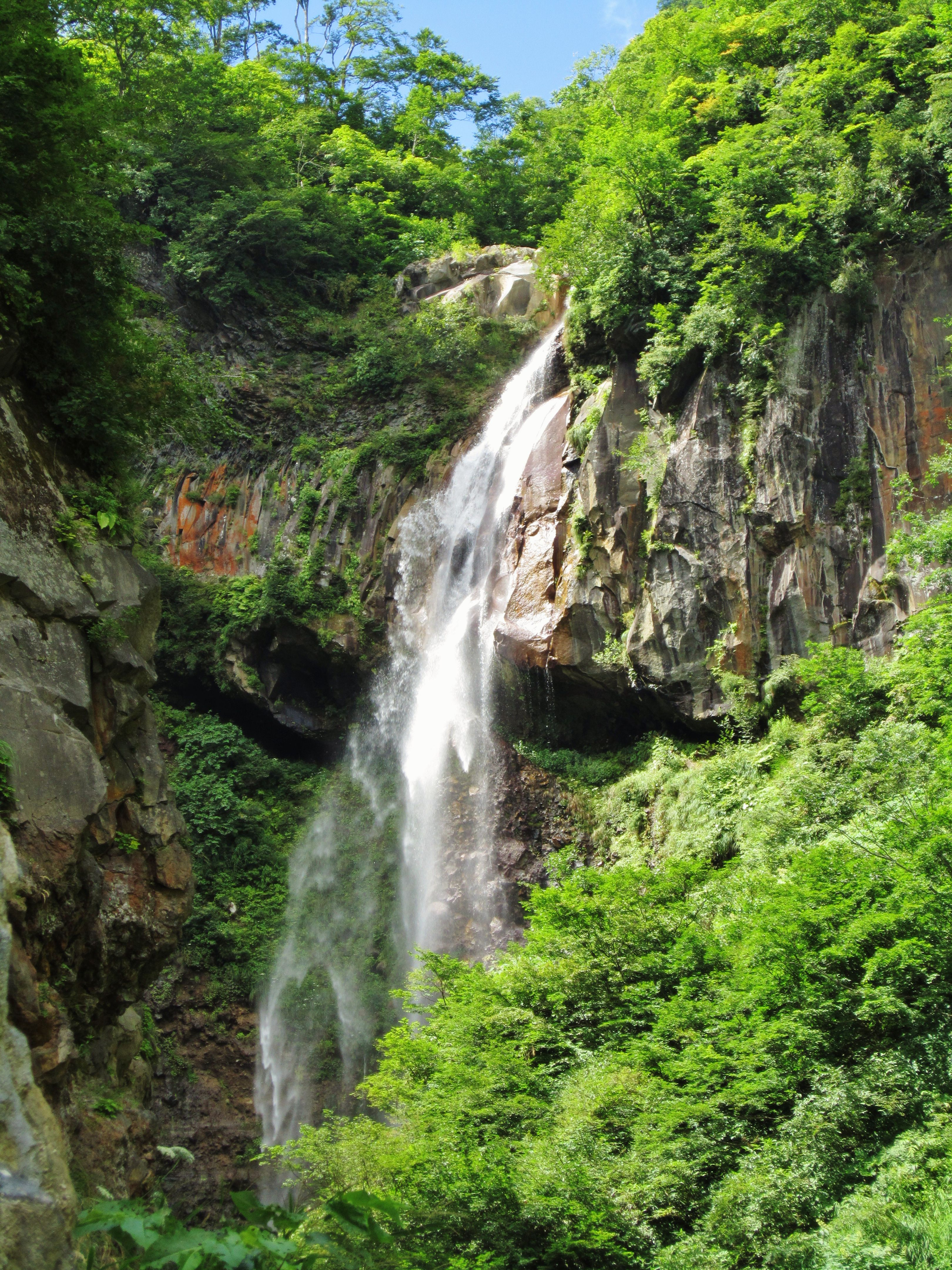 Sō Falls.